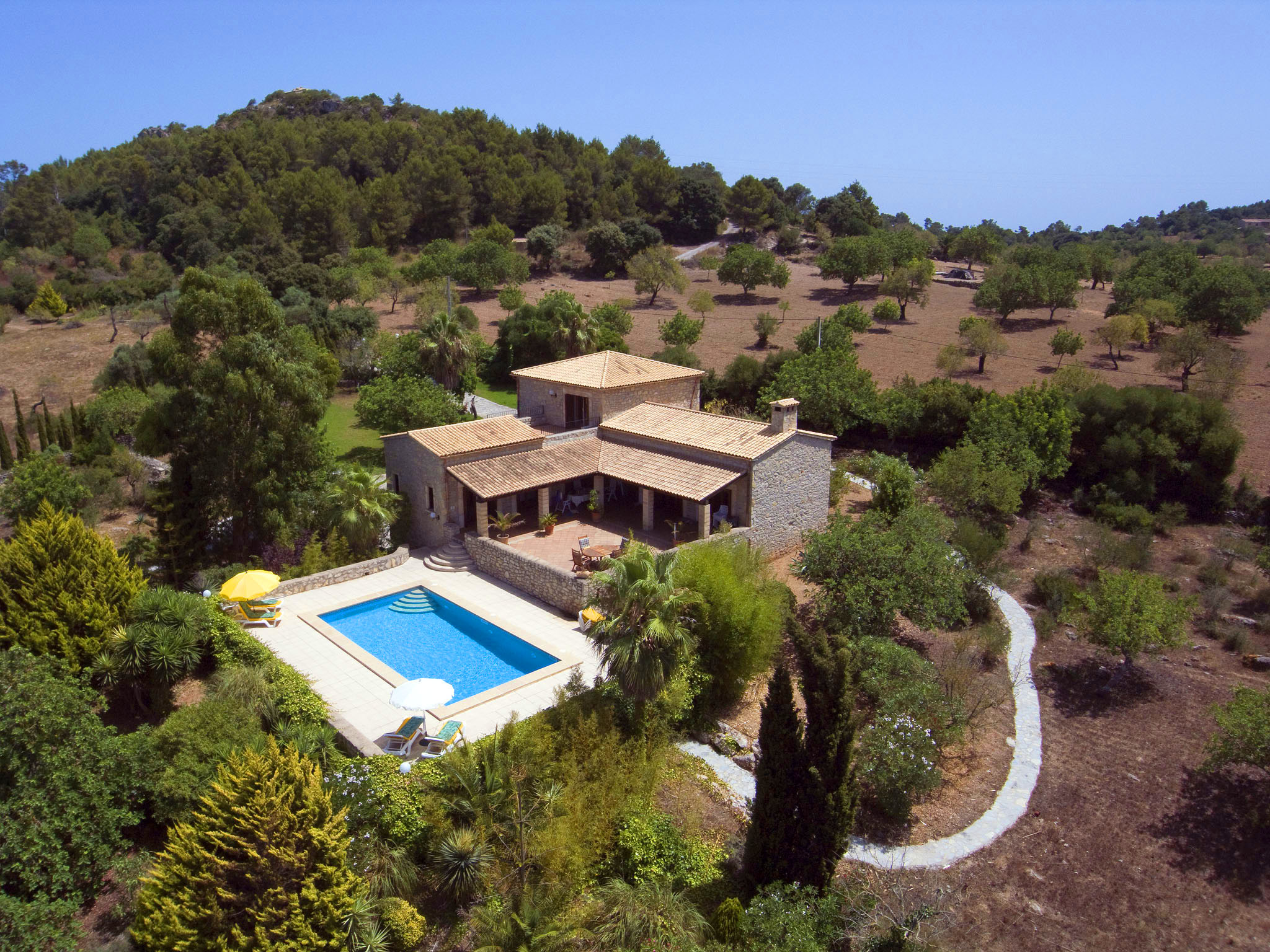 Finca